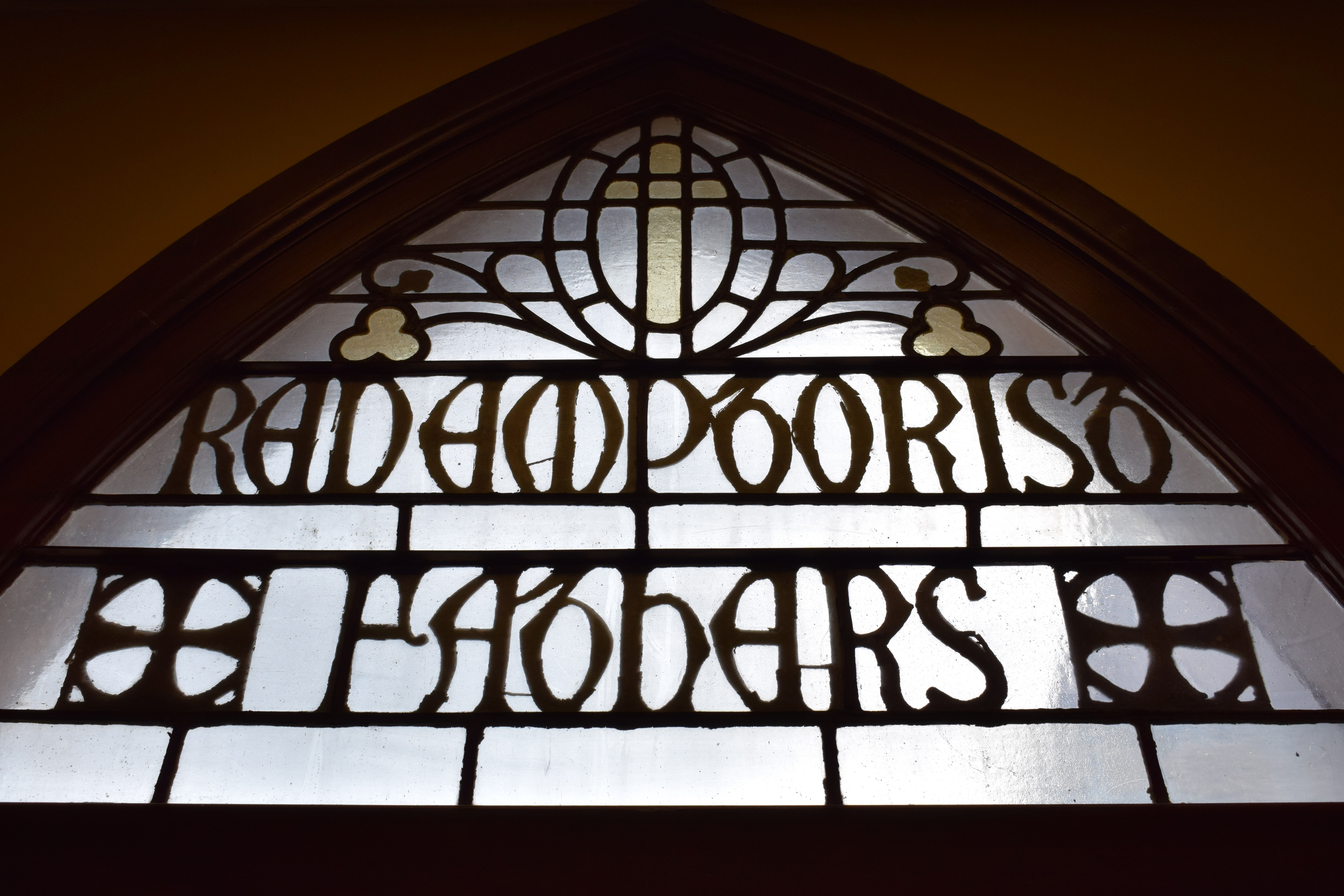 Saint Alphonsus Liguori Church (St. Louis, MO) - Redemptorist Fathers